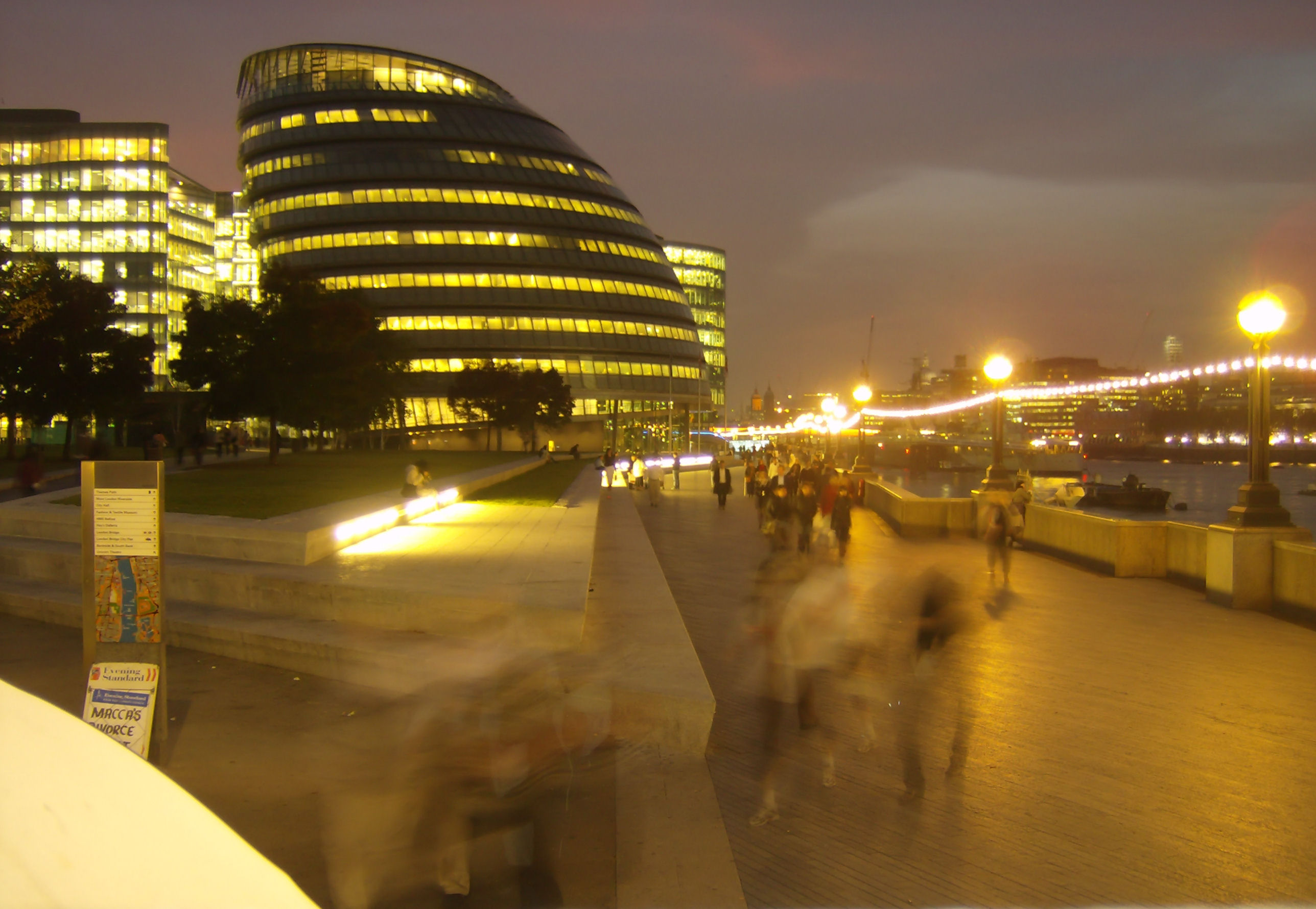 The City Hall in London at night, taken with a long exposure.